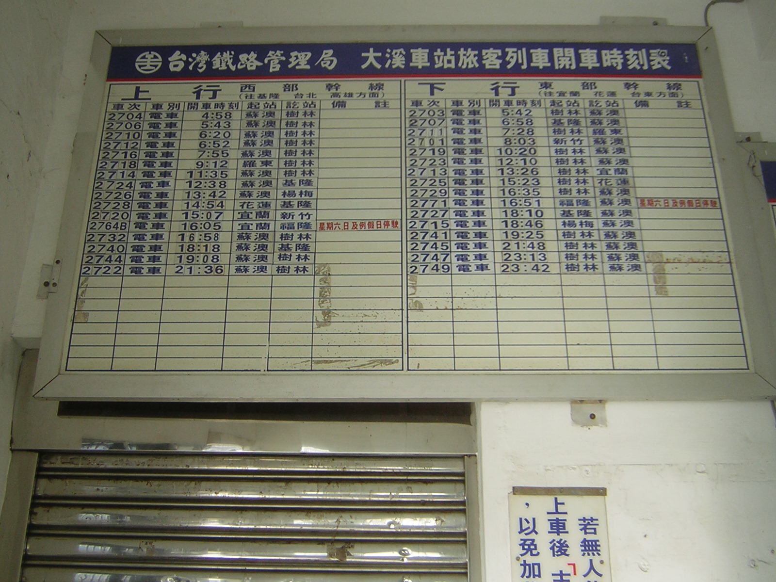 The train timetable of Dasi Station, Taiwan Railway Administration.